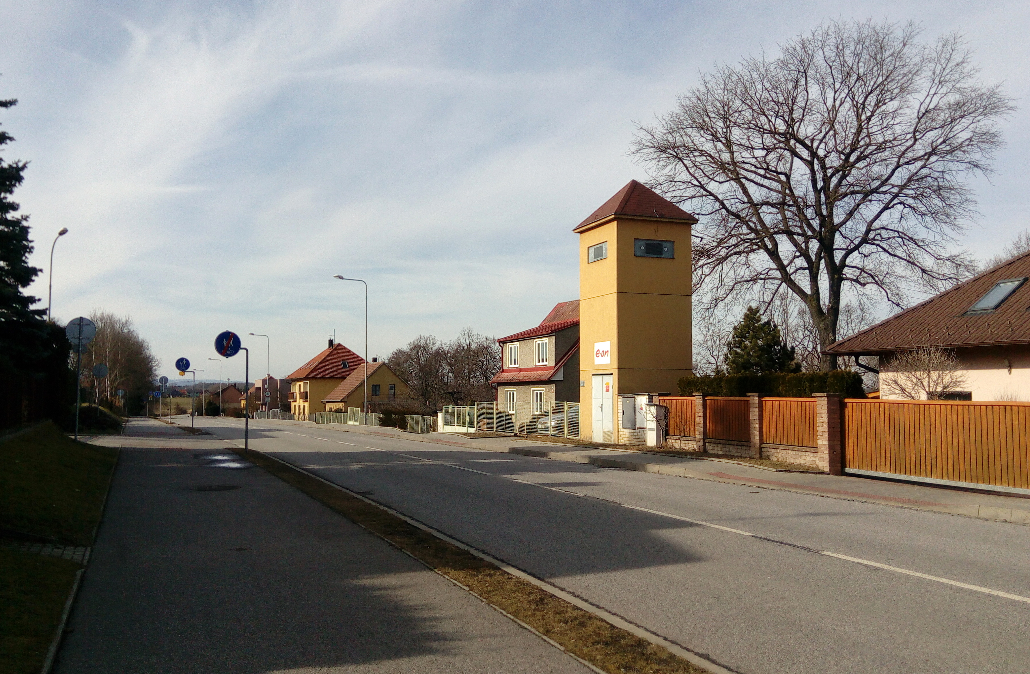 High street in Zavadilka, part of the city of České Budějovice, South Bohemian Region, Czechia